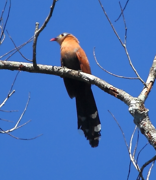 Black-bellied Cuckoo at Alta Floresta - MT - Brazil